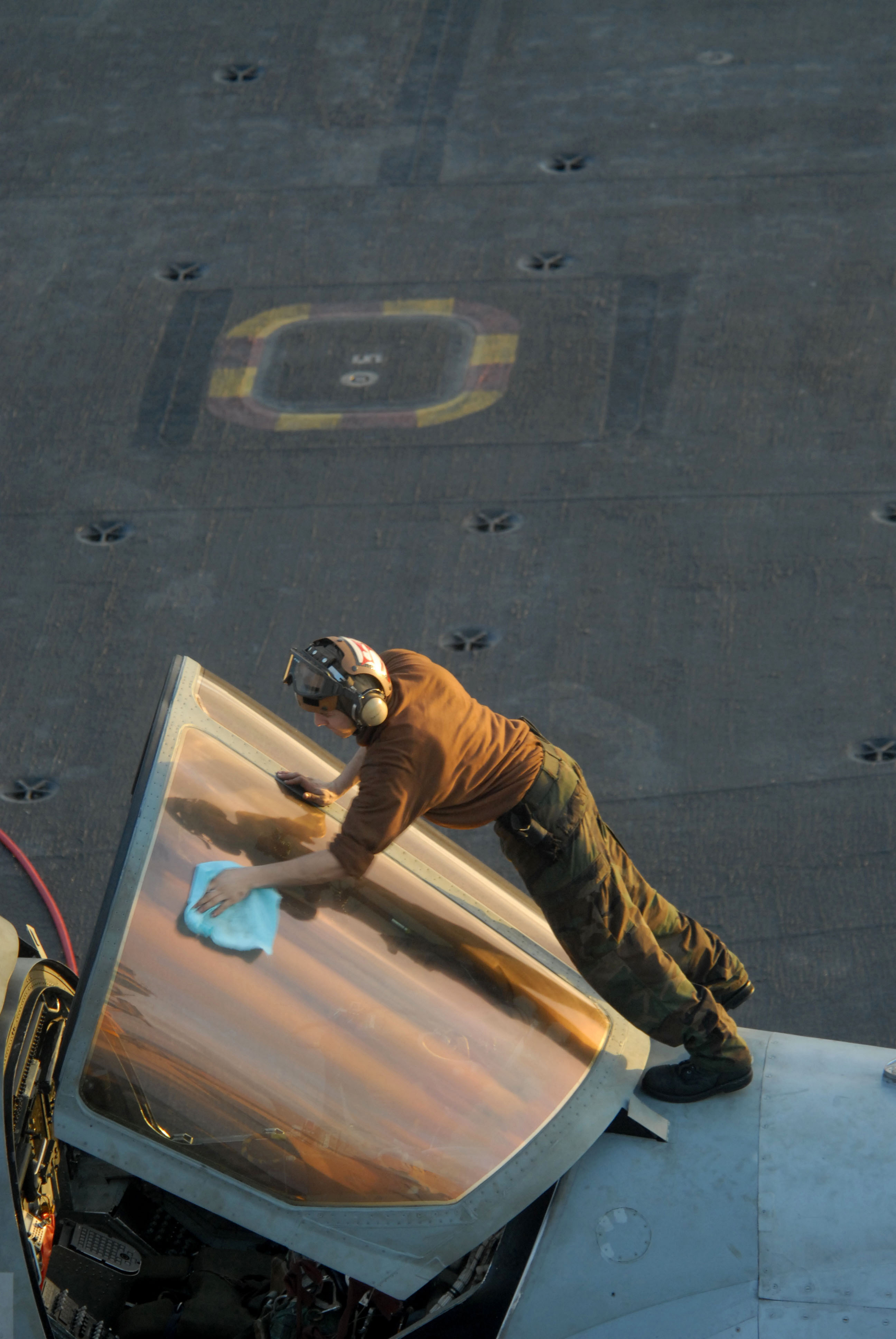 A U.S. Navy plane captain assigned to the "Cougars" of Tactical Electronic Warfare Squadron One Three Nine wipes down the canopy of an EA-6B Prowler aircraft aboard USS Ronald Reagan (CVN 76) Feb. 17, 2007. The Ronald Reagan Carrier Strike Group is under way on a surge deployment in support of U.S. military operations in the Western Pacific Ocean.